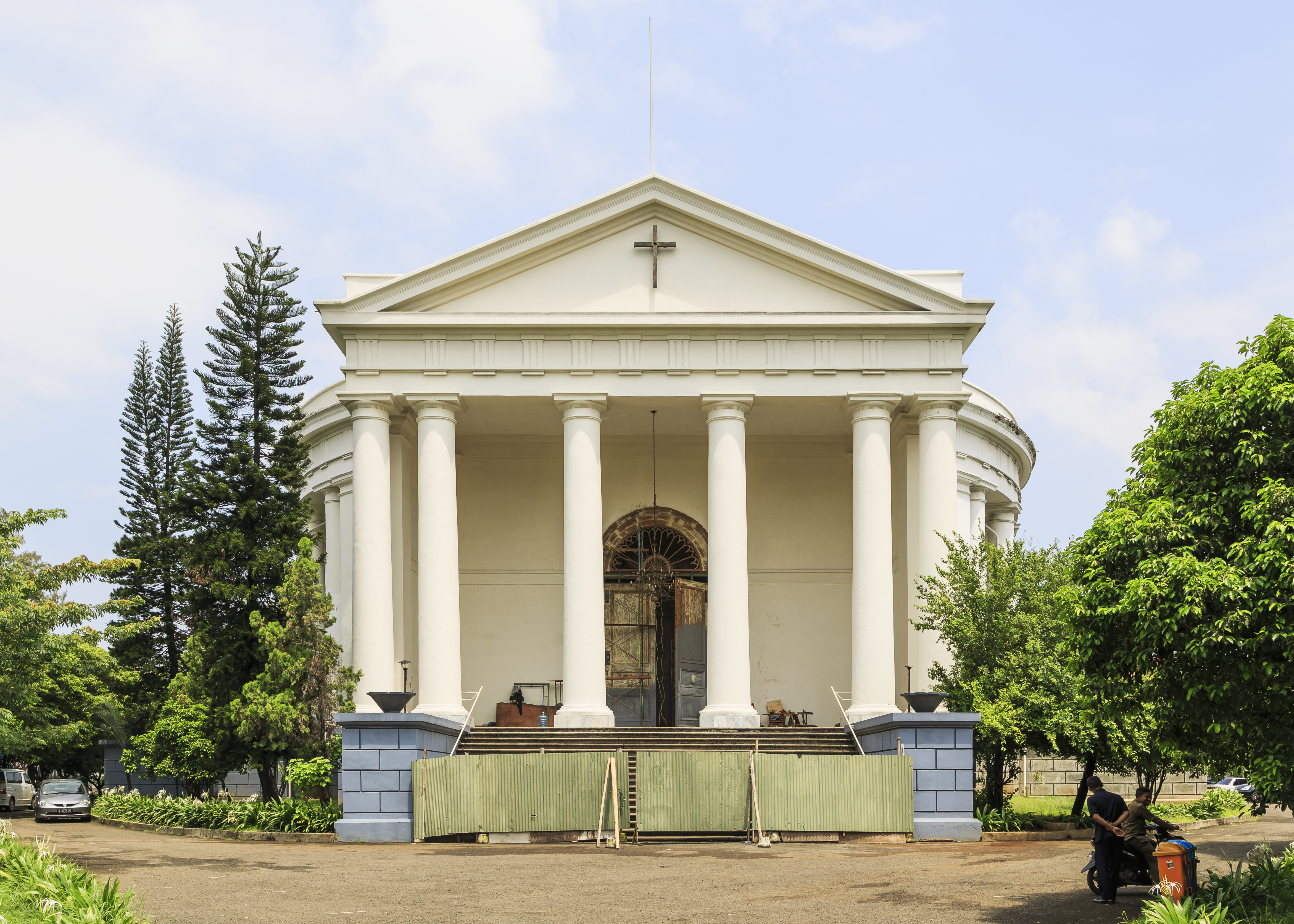 Jakarta, Indonesia: Immanuel Church, the protestante church of Jakarta. Presently under refurbishment.